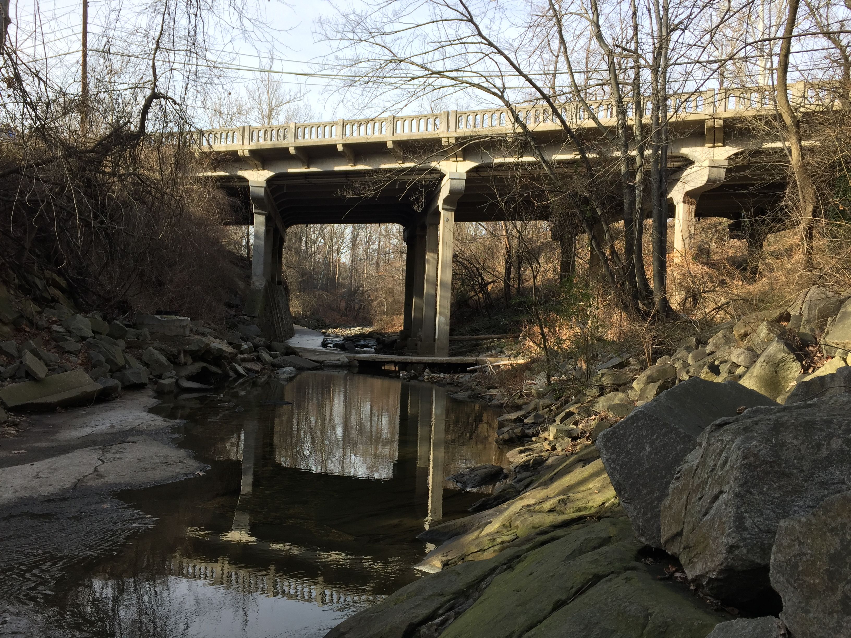 Columbia Pike crossing of Four Mile Run in Arlington County, Virginia in 2017